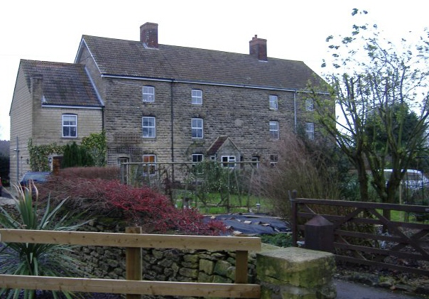 Mill at Milbourne Several cloth and silk mills were built in the Malmesbury area some working into the 20th century. Was this building a former mill?